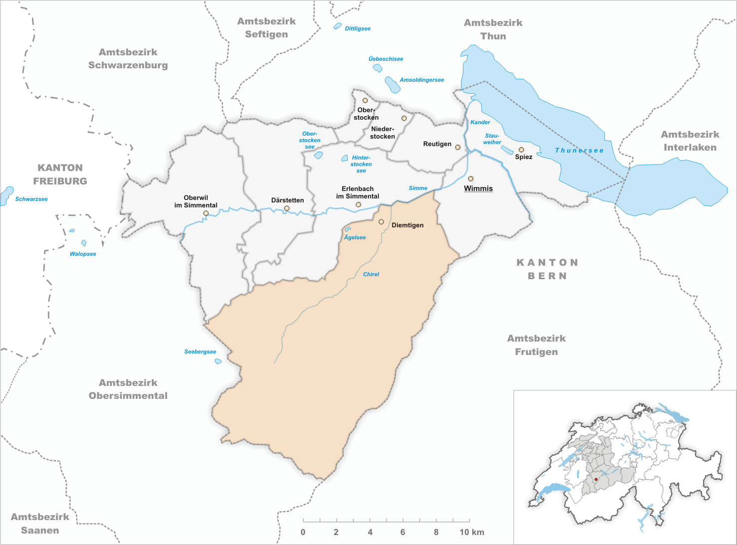 Municipality Diemtigen